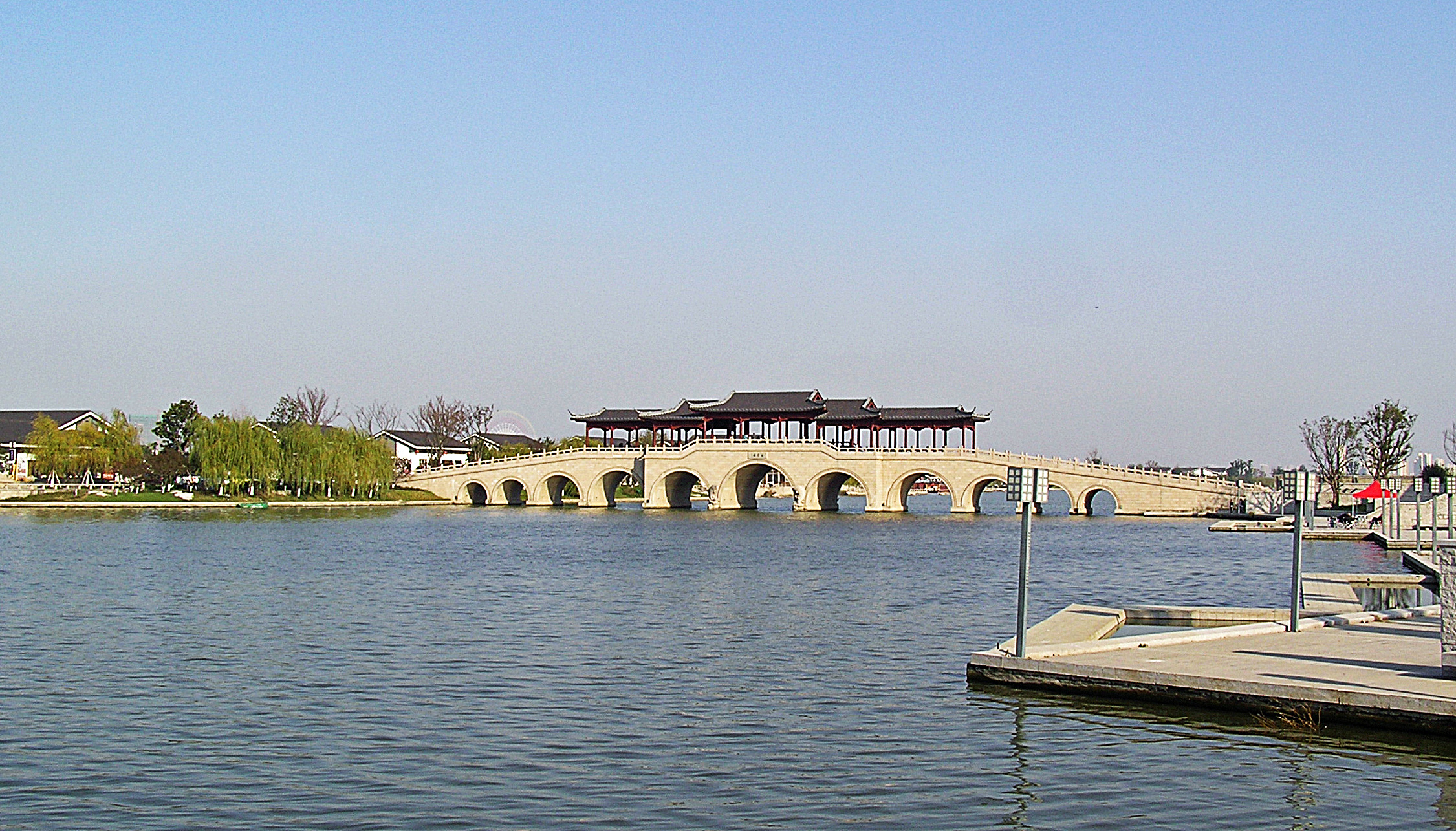 Ling Yun Bridge in Li Gong Di of the Jin Ji Lake, one of the renewal adjacent shopping mall and restaurants in Suzhou Industrial Park (SIP)